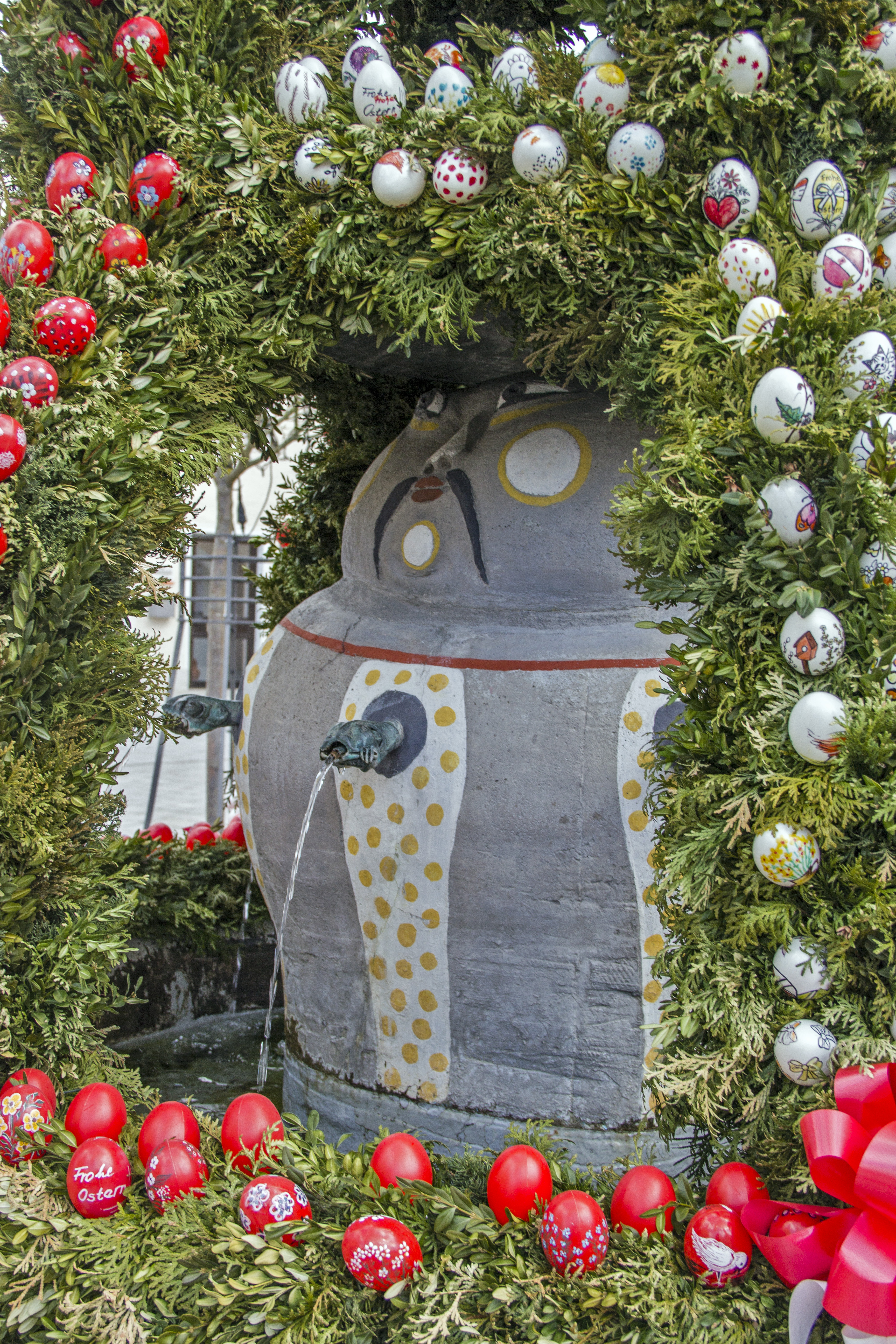 Dietfurt, Chinese Fountain, Eastern